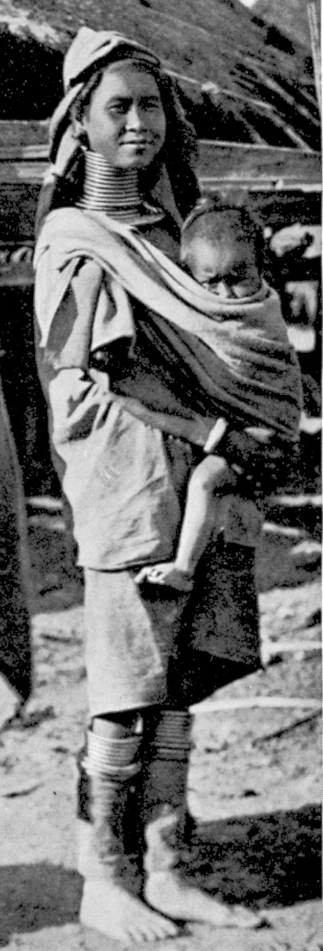 cut of Image:PADAUNG_COLD-WEATHER_COSTUME.jpg